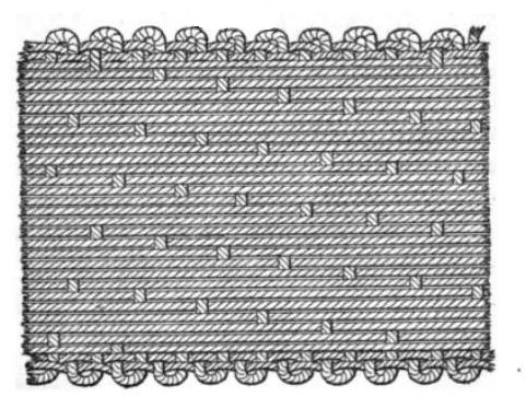 Satin weave (warp-faced) used in silk weaving, from The History and Principles of Weaving by Hand and by Power by , 1878, S. Low, Marston, Searle & Rivington, London. Warp yarns are shown running left and right. Weft shown running top to bottom.